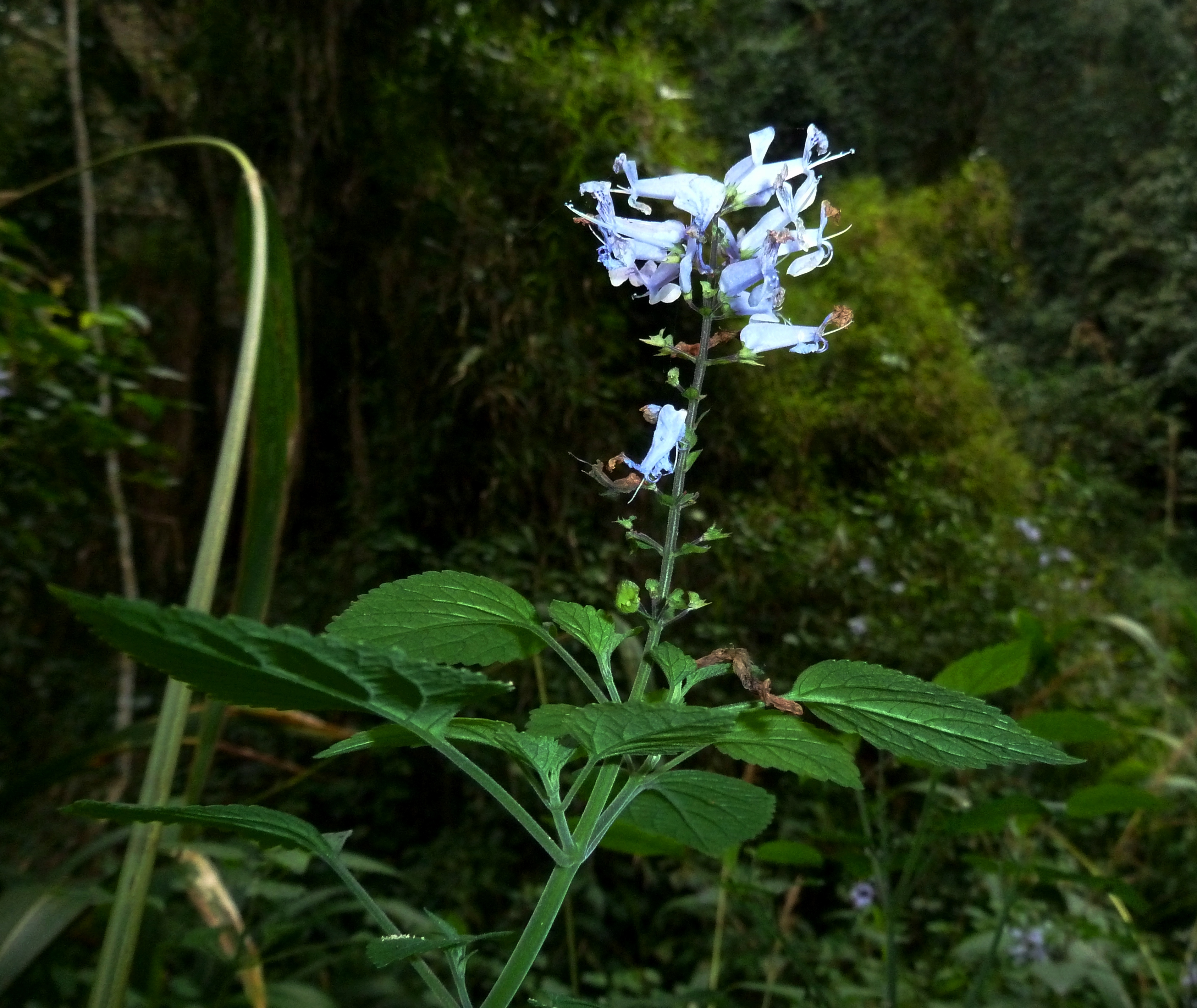 Zulu spur-flower in Krantzkloof Nature Reserve, KwaZulu-Natal